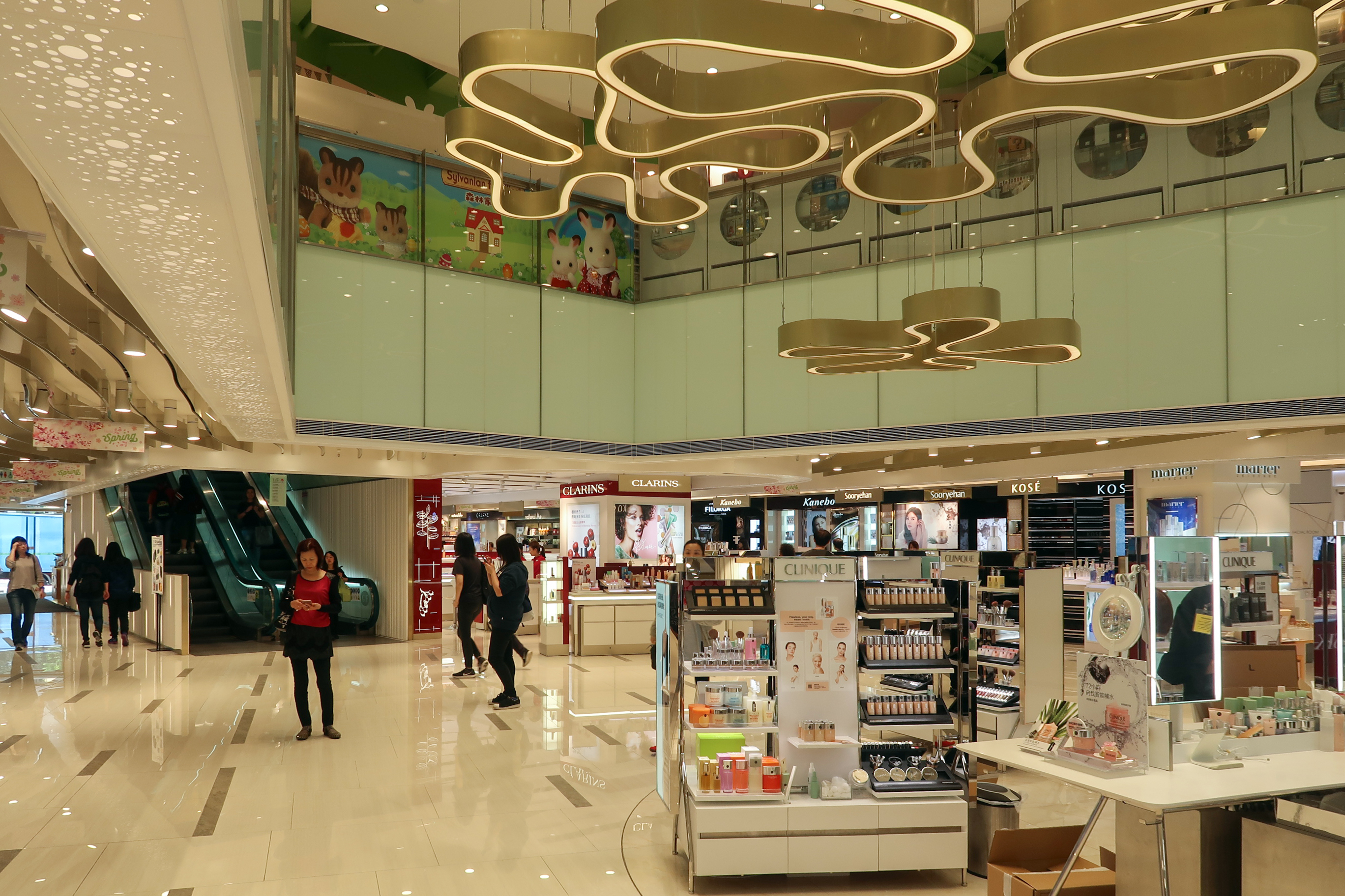 Citistore Tsuen Wan interior